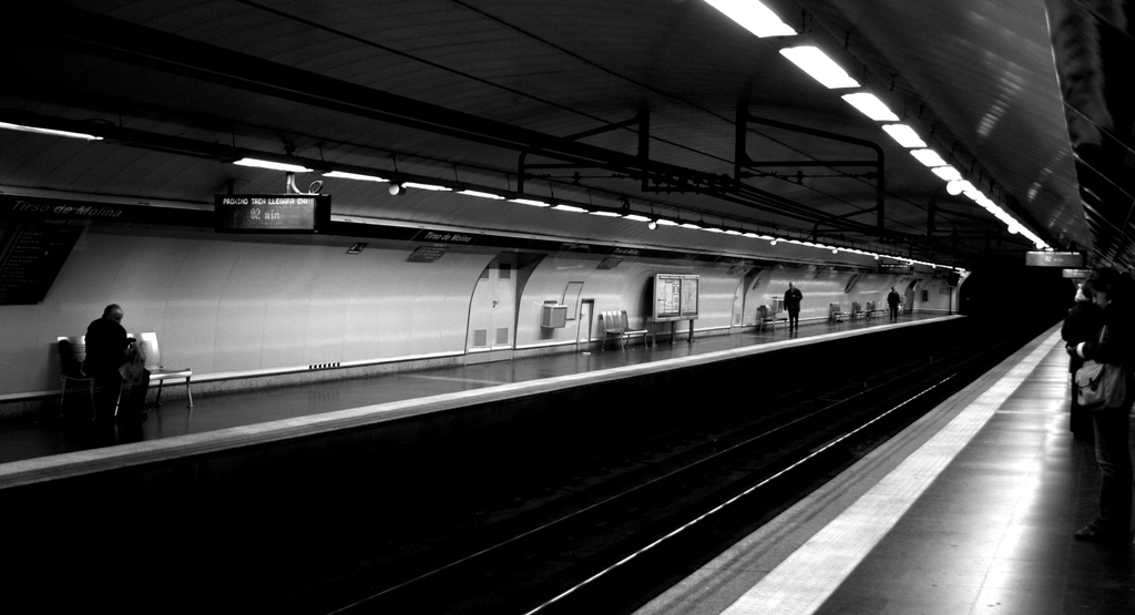 Tirso de Molina underground station in Madrid (Spain).